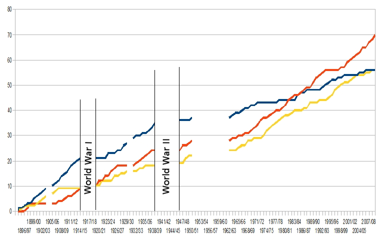 Results of league matches for the Merseyside derby between Everton and Liverpool.